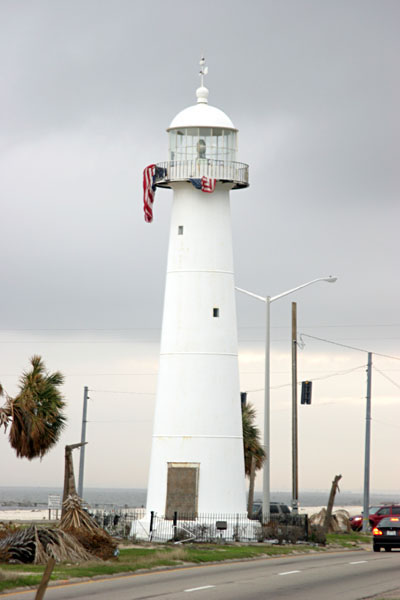 Biloxi Light taken on 1-23-06, just a few months after Hurricane Katrina.